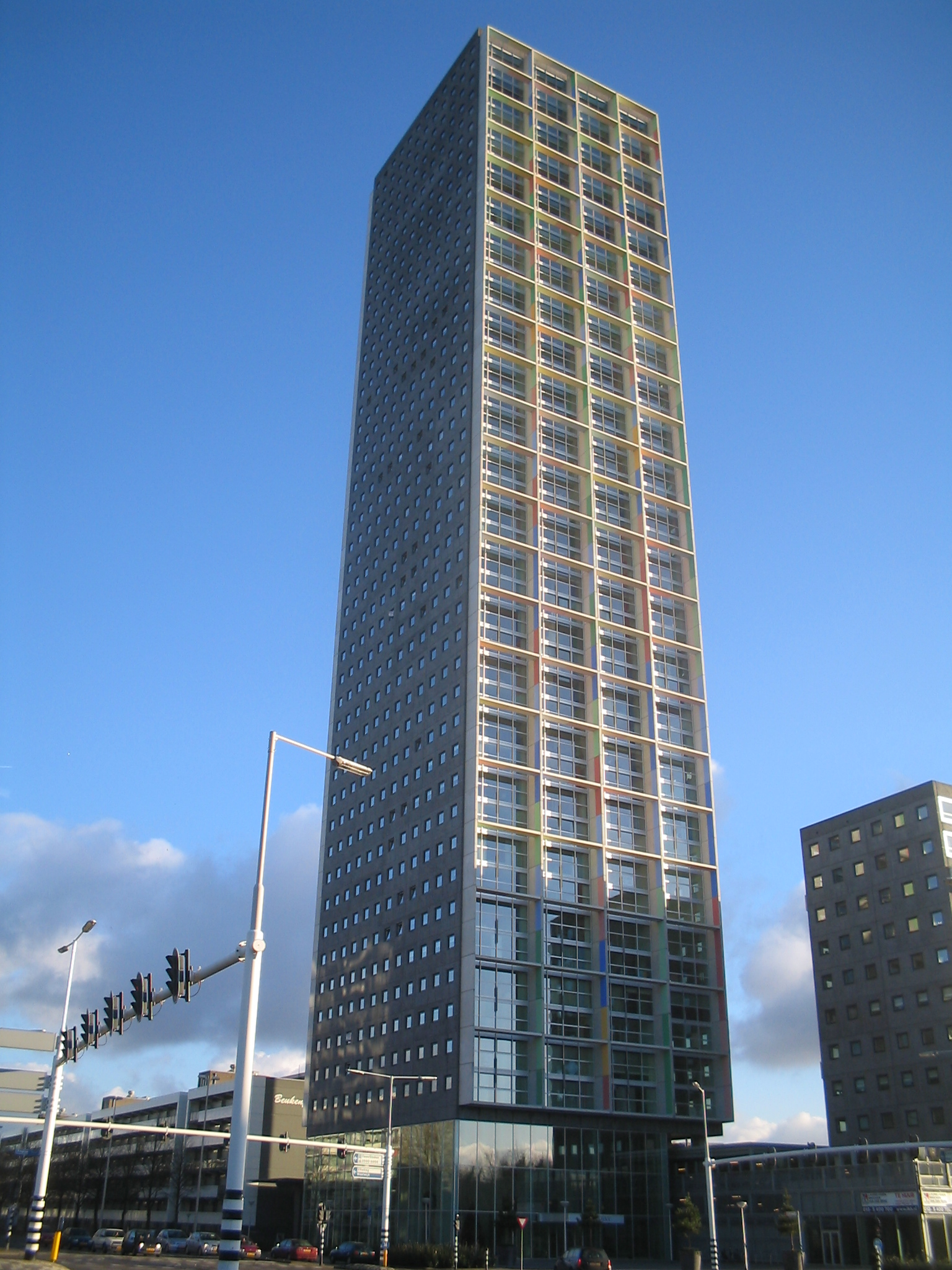 Tilburg, Westpoint tower,dec. 2005